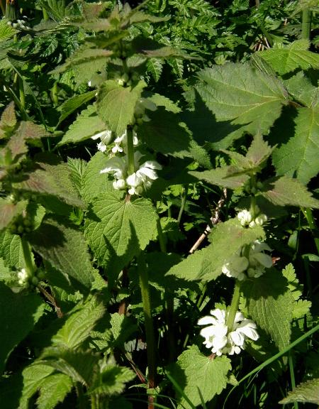 Lamium album: Habitus, Flowers and leaves.